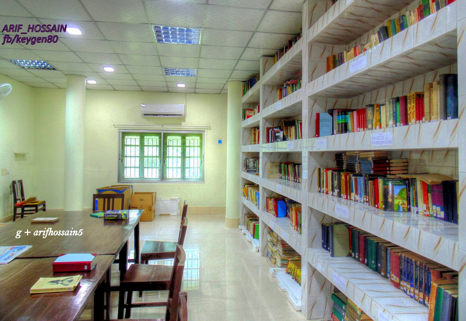 Located on the first floor of the Shahidullah Kala Bhaban ( Shahidullah Arts Building of the Arts Faculty University of Rajshahi Аҧсшәа: শহীদুল্লাহ কলা ভবনের ২য় তলায় অবস্থিত ইংরেজি বিভাগের সেমিনার লাইব্রেরি